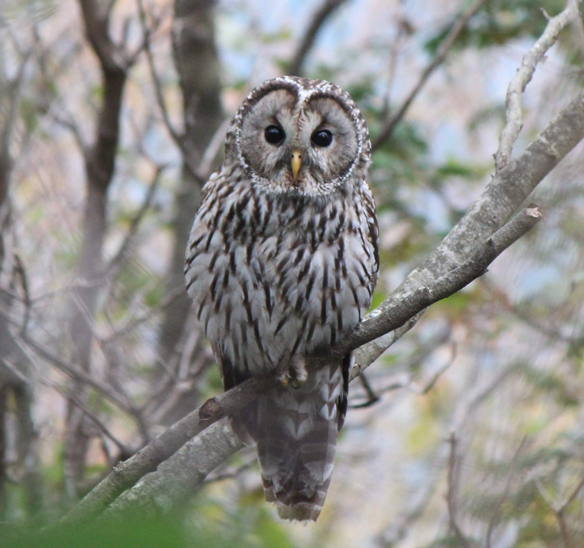 Ural Owl (Strix uralensis) looking front in Mount Chausu, Japan.